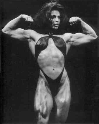 Sharon Bruneau during an on-stage performance at a bodybuilding show.